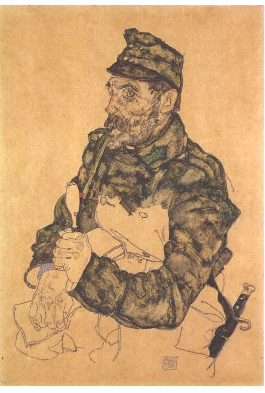 Austrian sodier with a pipe